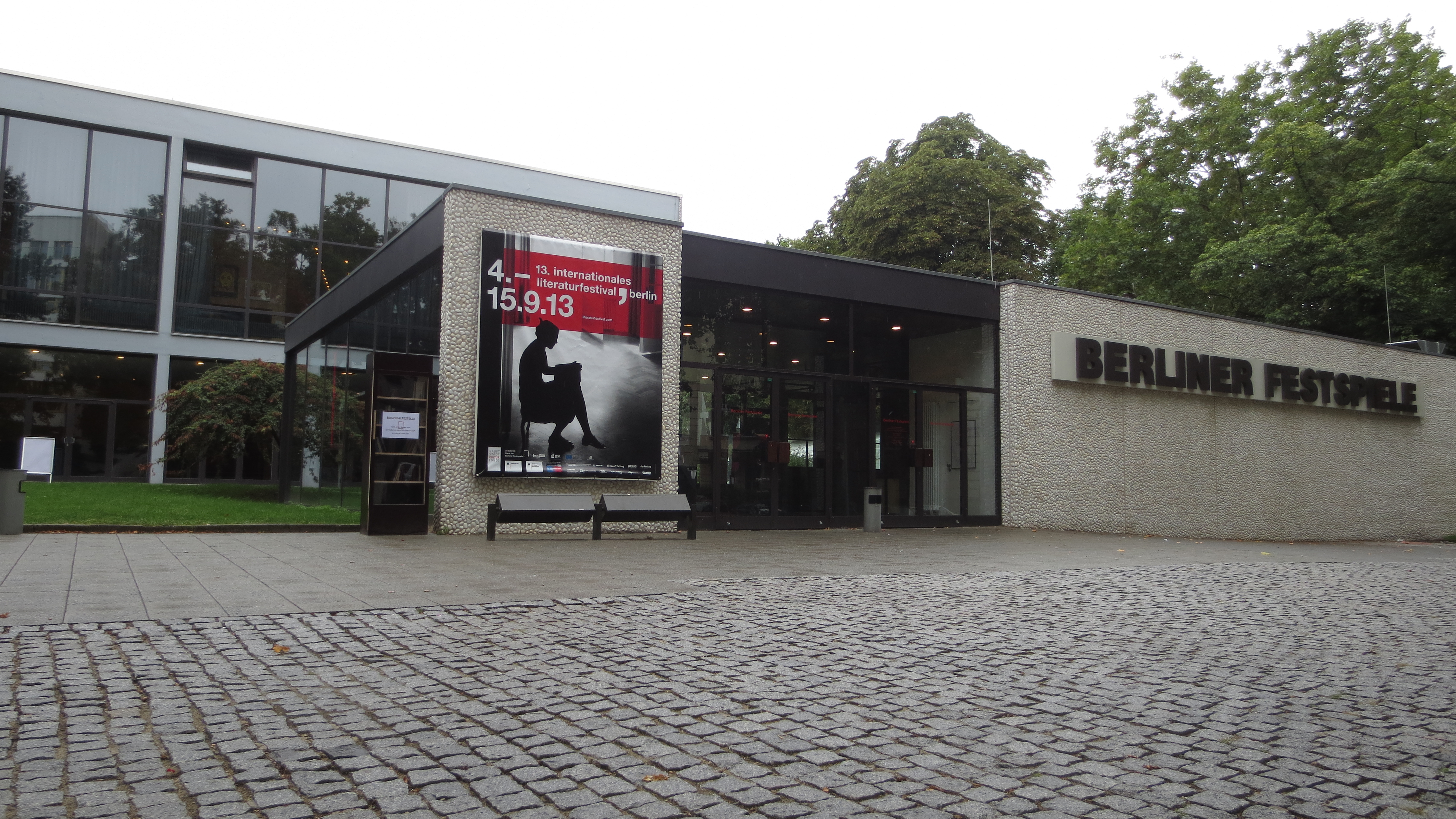 13. Internationales Literaturfestival Berlin - Haus der Berliner Festspiele - Schaperstraße.jpg